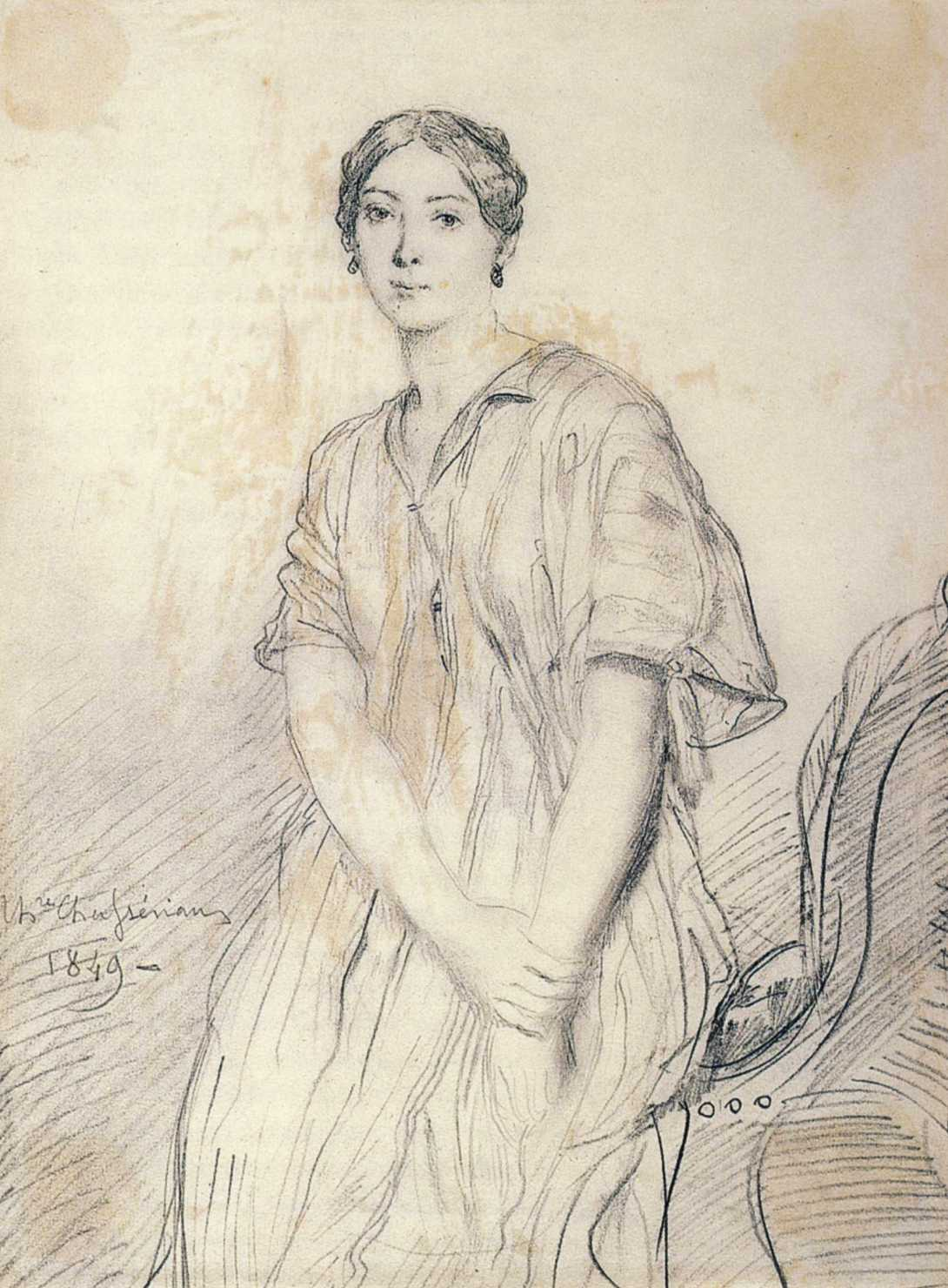 Dimensions and material of painting: Graphite, 32.1 x 24 cm